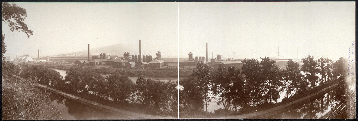 Bethlehem Steel viewed from the north bank of the Lehigh River.